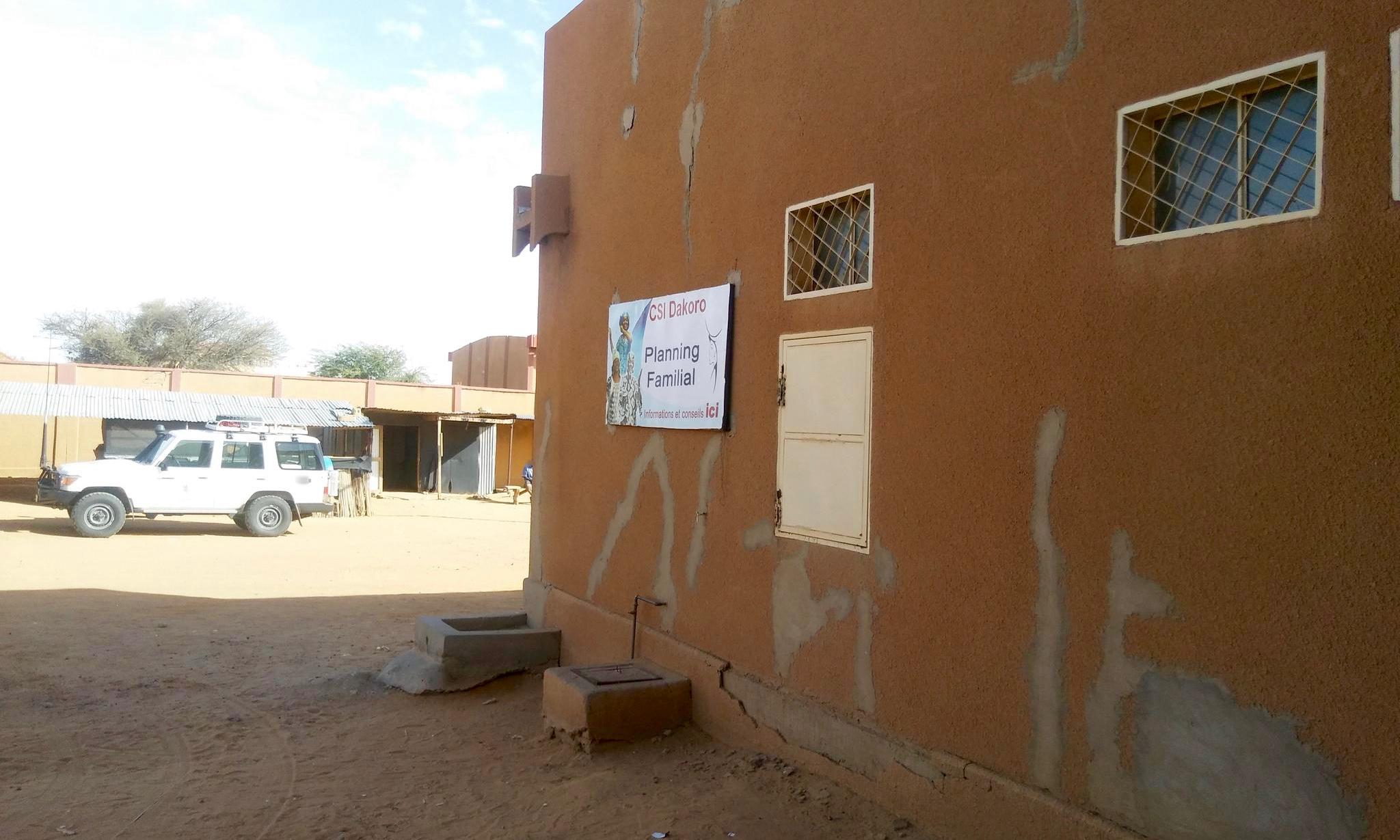 CSI Dakoro, Niger.